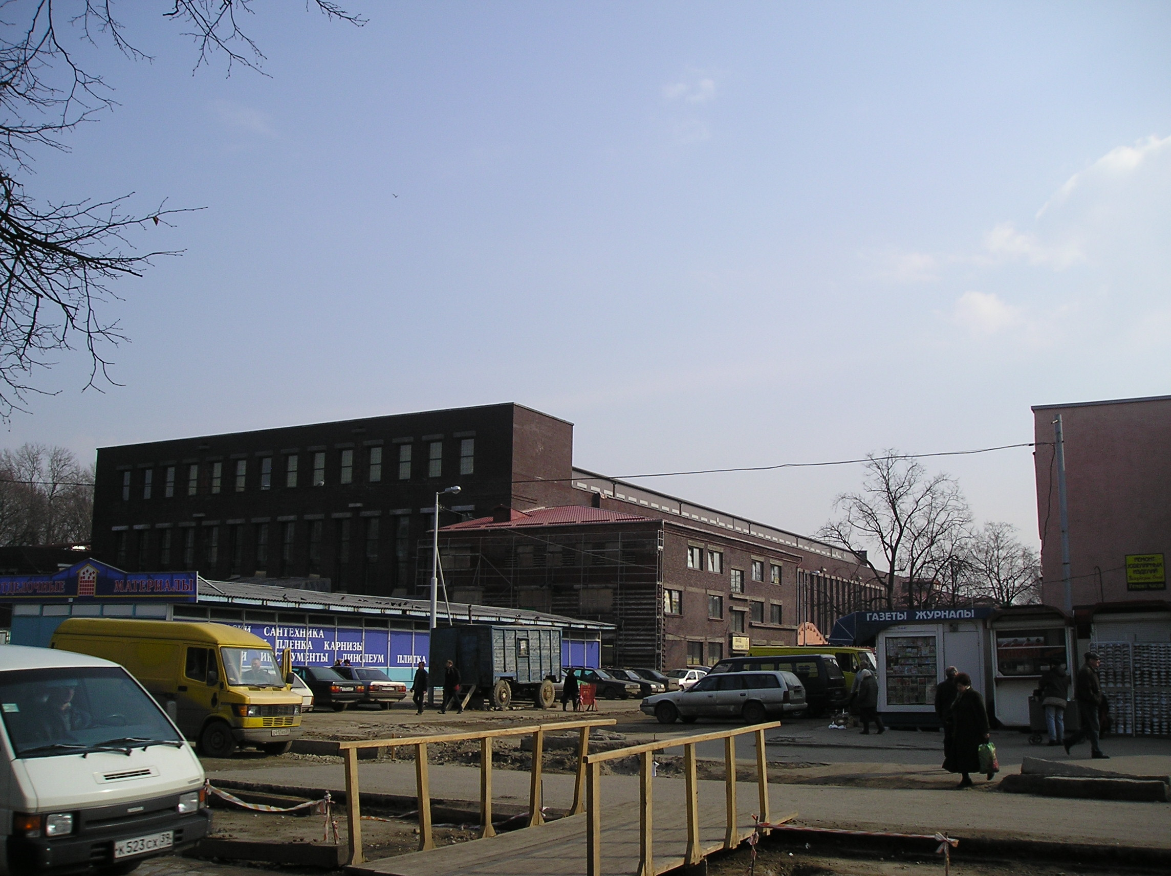 House of technology in Kaliningrad during restoration.